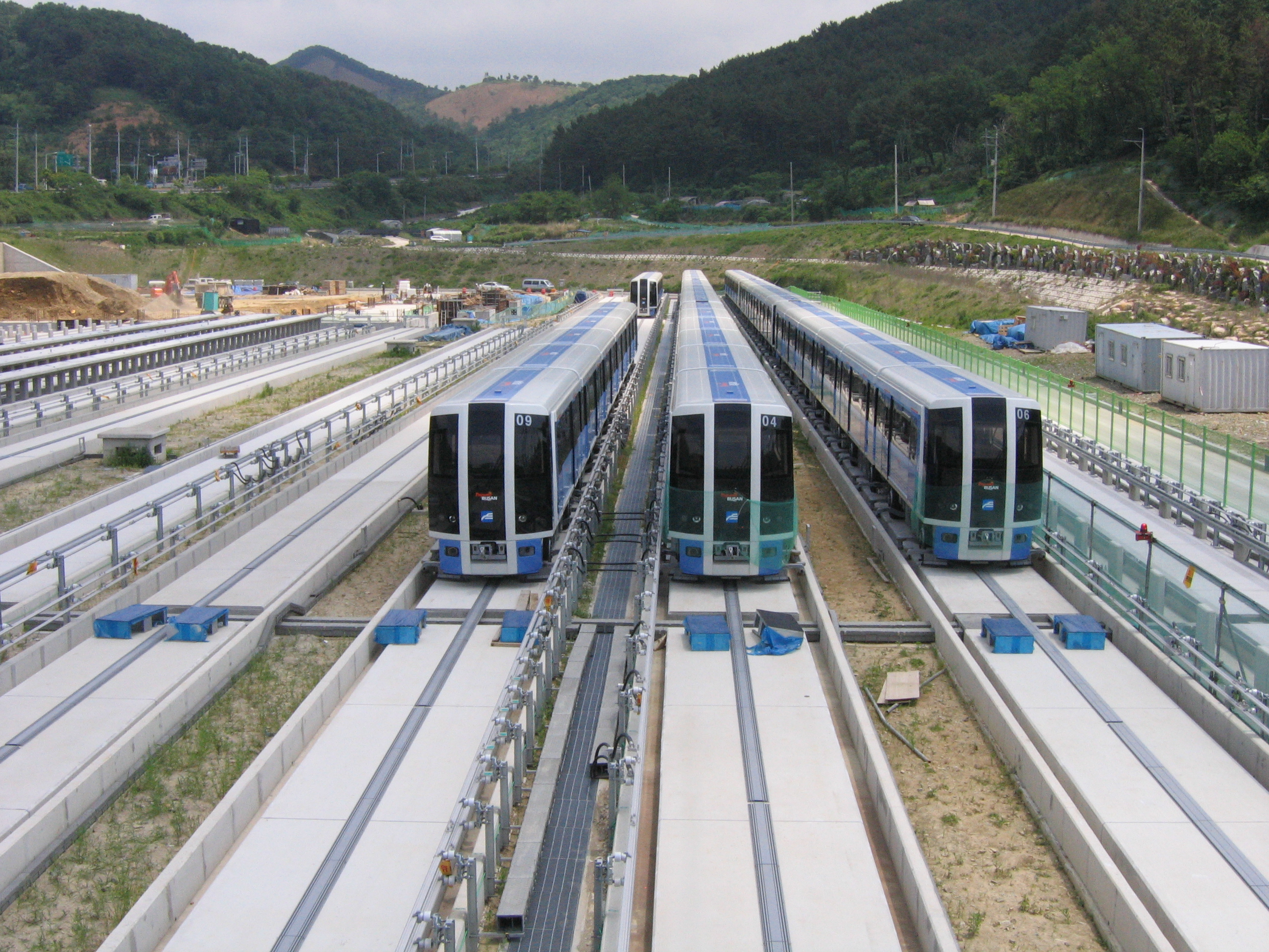 BTC Anpyeong depot, home for class 4000 EMUs.